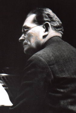 Jaromír Herle